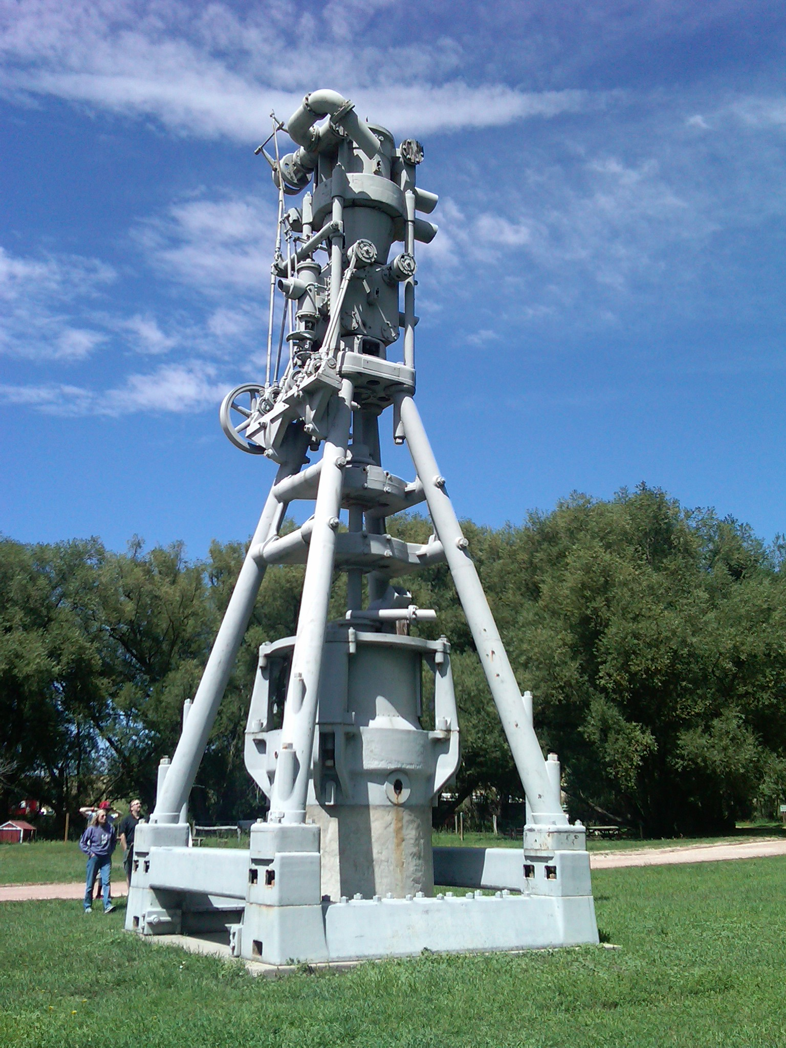 40-foot tall steam stamp engine, or steam hammer, used in the Michigan copper district circa 1900, in the collection of the Western Museum of Mining & Industry, Colorado Springs, Colorado